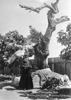 Father Ramon Mestres (1865-1930) standing in front of the remains of the Vizcaíno-Serra Oak on the grounds of the Cathedral of San Carlos Borromeo in Monterey, California